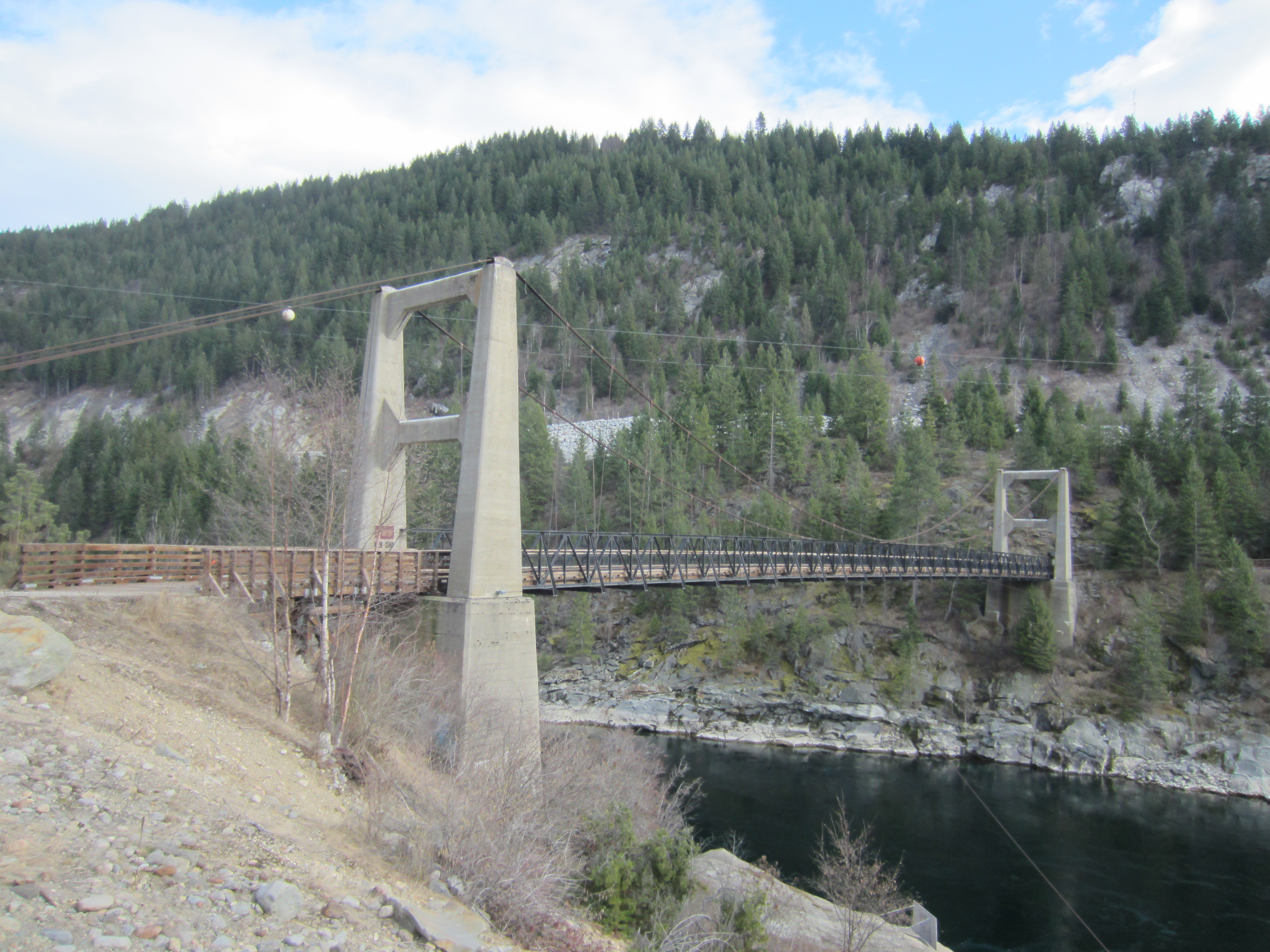 Brilliant Suspension Bridge across the Kootenay River, just north of Castlegar British Columbia Canada. Erected in 1913 to replace a ferry across the river, it was used until 1966 when then Highway 3A bridge was built. It was restored as a footbridge and opened as the centerpiece of Brilliant Bridge Regional Park in 2010.